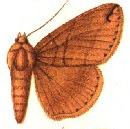 PLATE CCXXI.